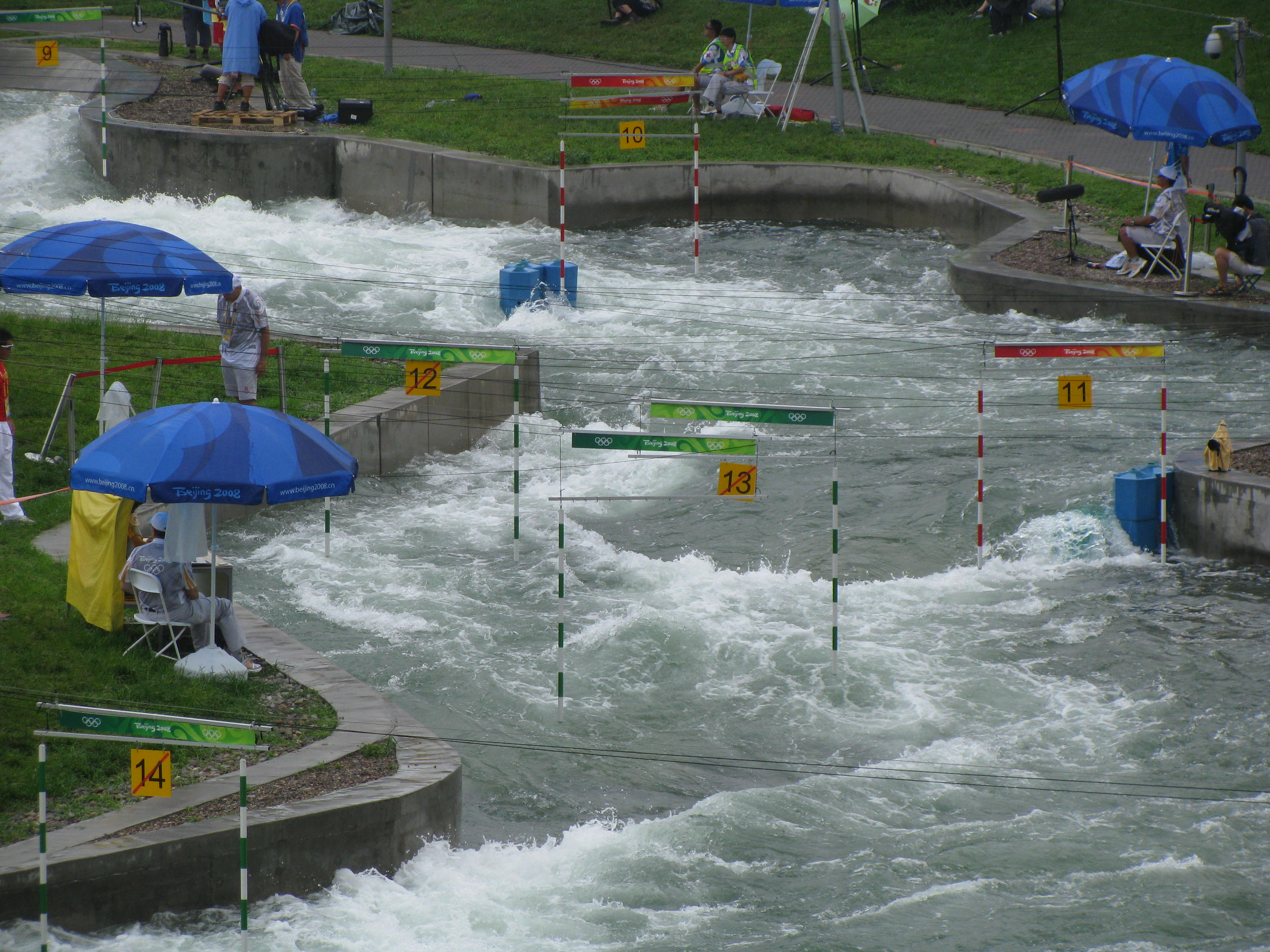 Gates #9 through #14 of Shunyi Slalom Course, 2008 Olympic Games, Beijing, China.